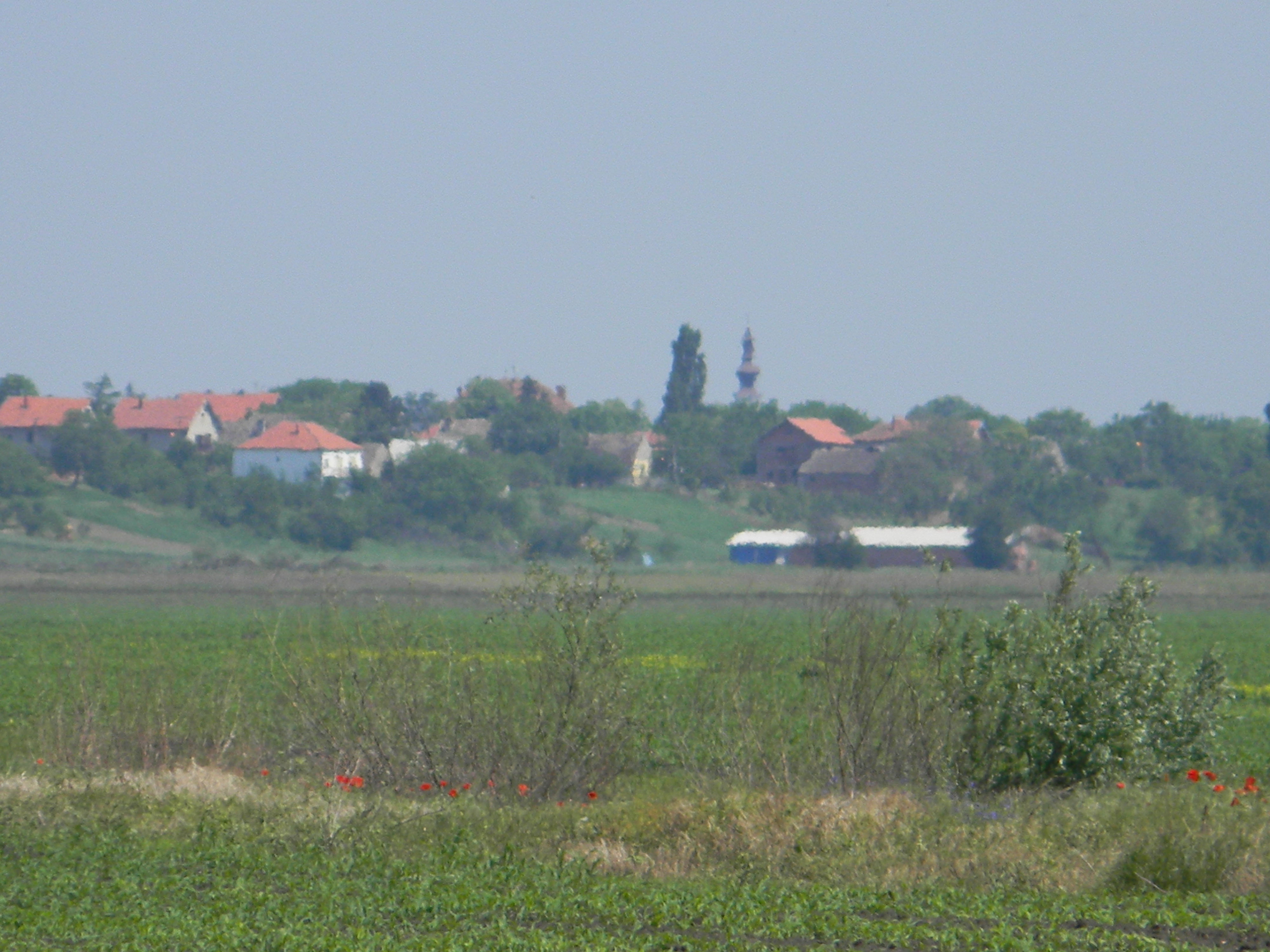 Pločica from distance